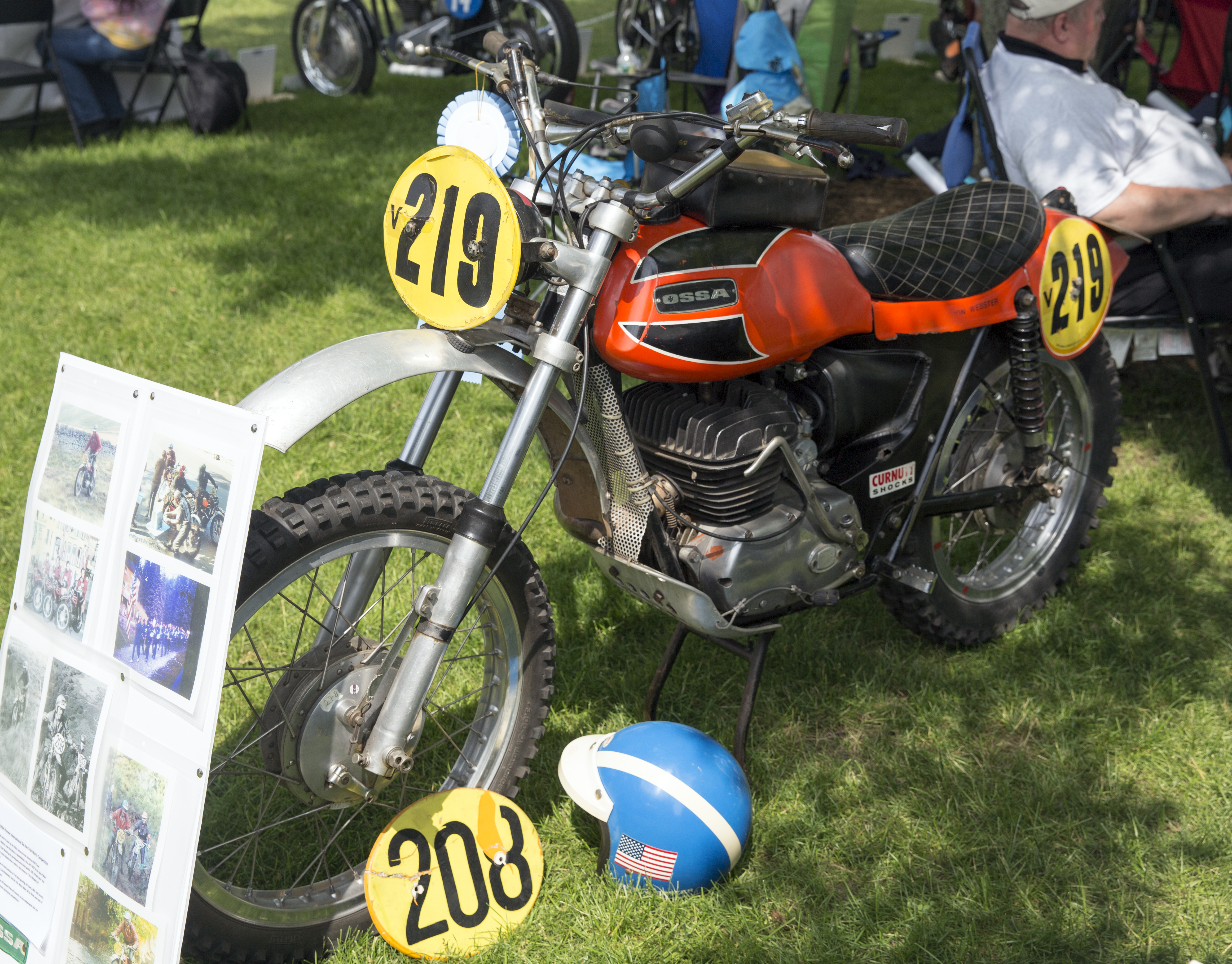 1971 OSSA Pioneer at the 2018 Greenwich Concours d'Elegance. Original factory racer built for the American ISDT team. It received gold at the 1971 Isle of Man ISDT (International Six-Day Trials) with Ron Webster. This bike finished two more ISDTs (Czechoslovakia and the US), a remarkable record. It still carries the scrutineers' marks which prove that no parts fell off during the competitions.